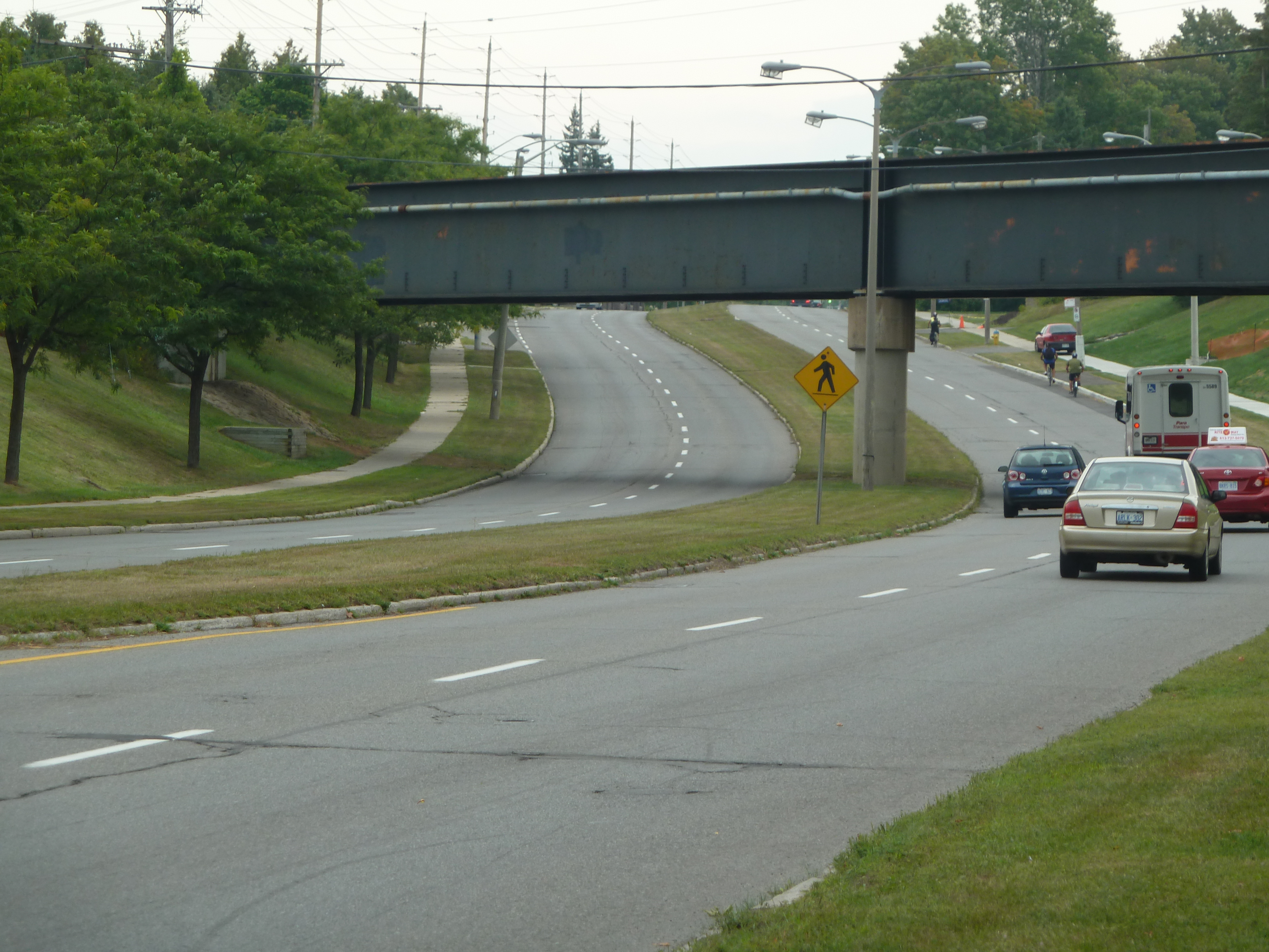 Walkey Road in Ottawa